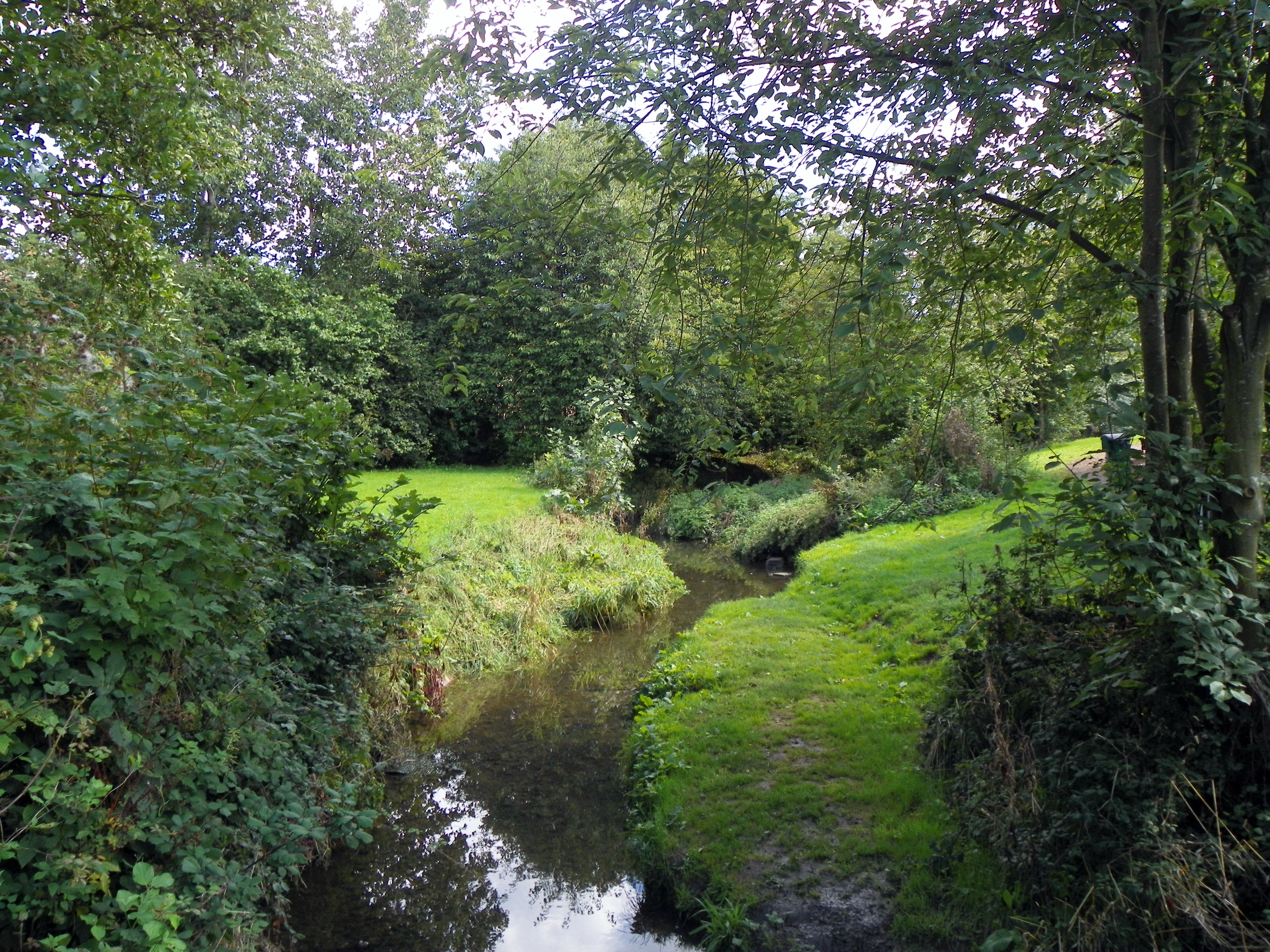 Tykes Water/Borehamwood Brook, Borehamwood, Hertfordshire, 6 September 2015. A tributary of the River Colne.